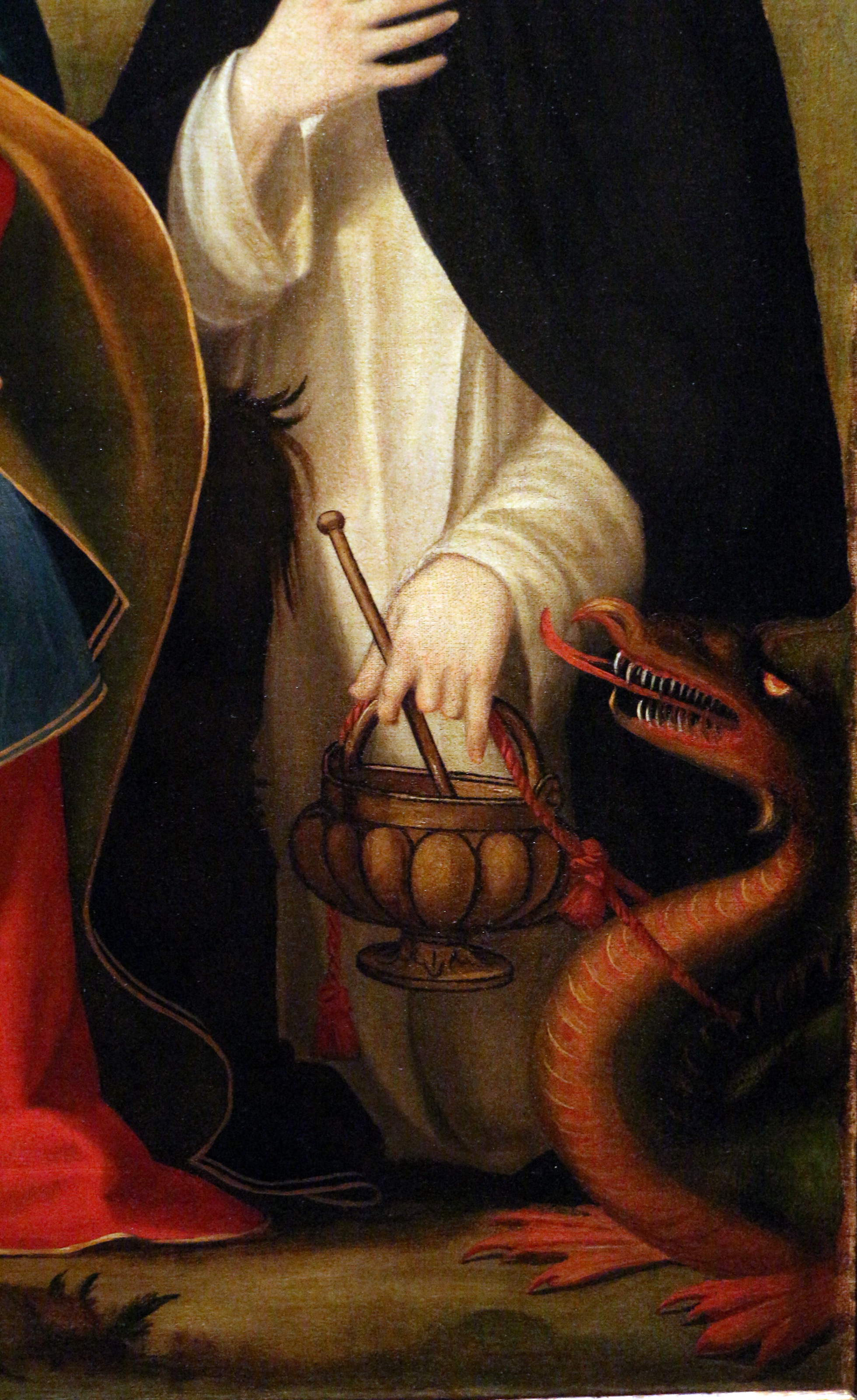 Museo Adriano Bernareggi